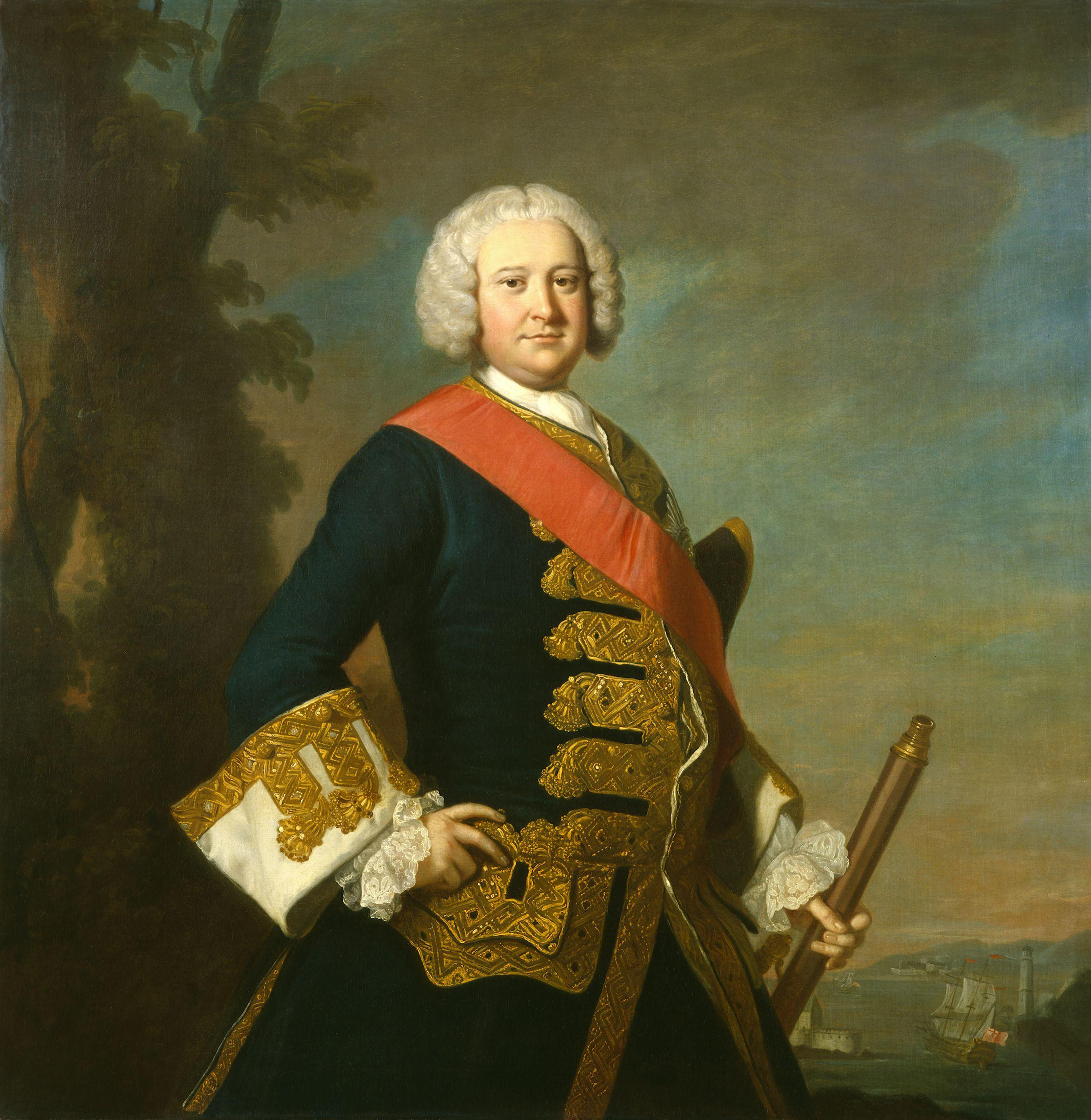 Sir Peter Warren, by Thomas Hudson (died 1779), given to the National Portrait Gallery, London in 1977. All images in this batch have been confirmed as author died before 1939 according to the official death date listed by the NPG.